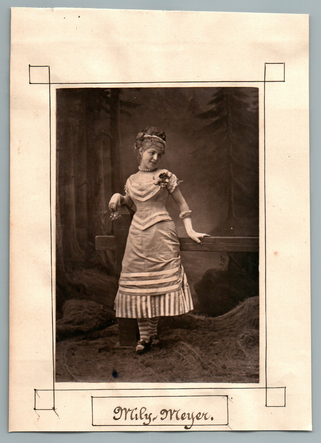 Mily-Meyer (Émilie Meyer), french operetta singer (1852–1927)